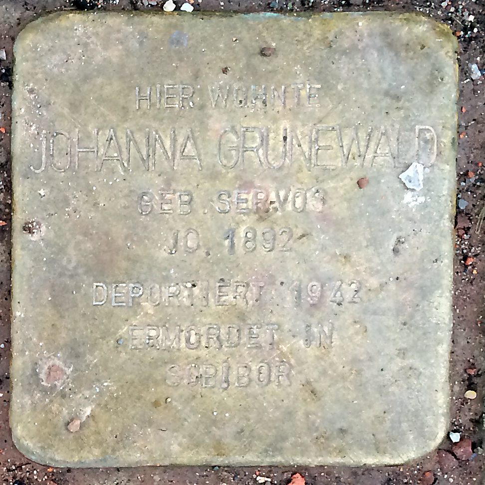 Stolperstein - Stumbling Stone in Nettetal, NRW, Germany Johanna Grunewald